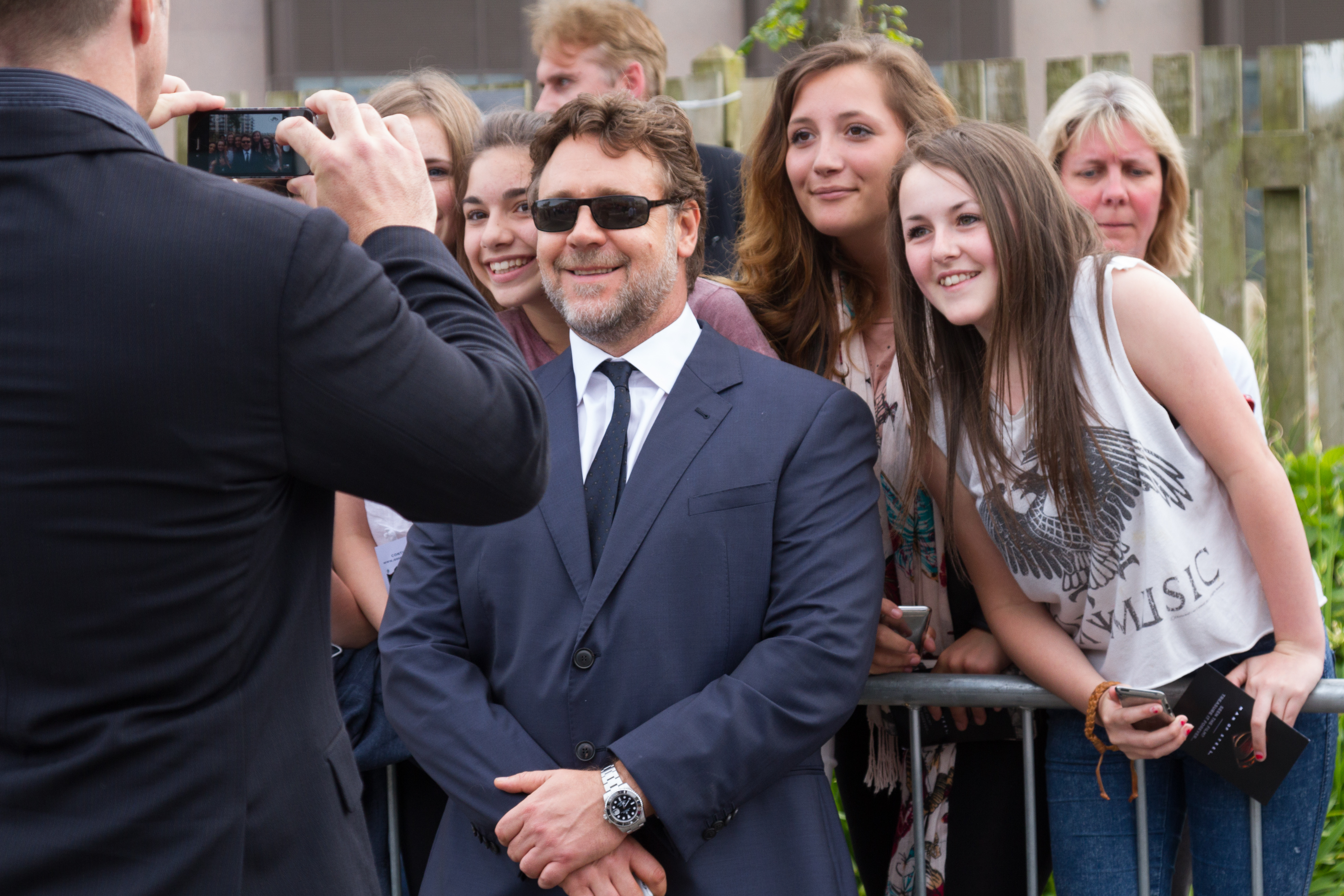 Russell Crowe posing with fans in St Helier, Jersey at the Man of Steel première.